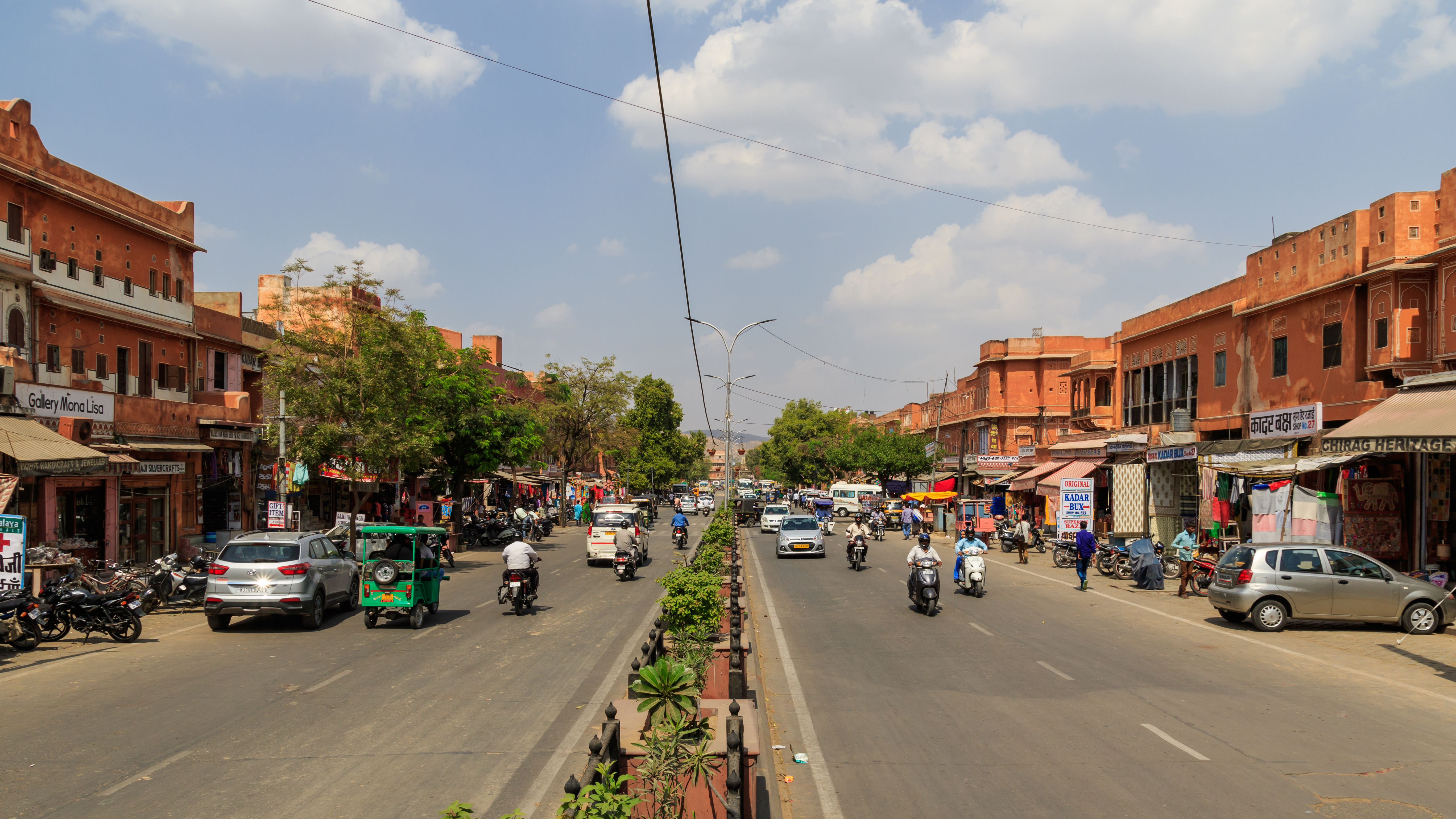 Hawa Mahal Road at the City Palace in Jaipur, India